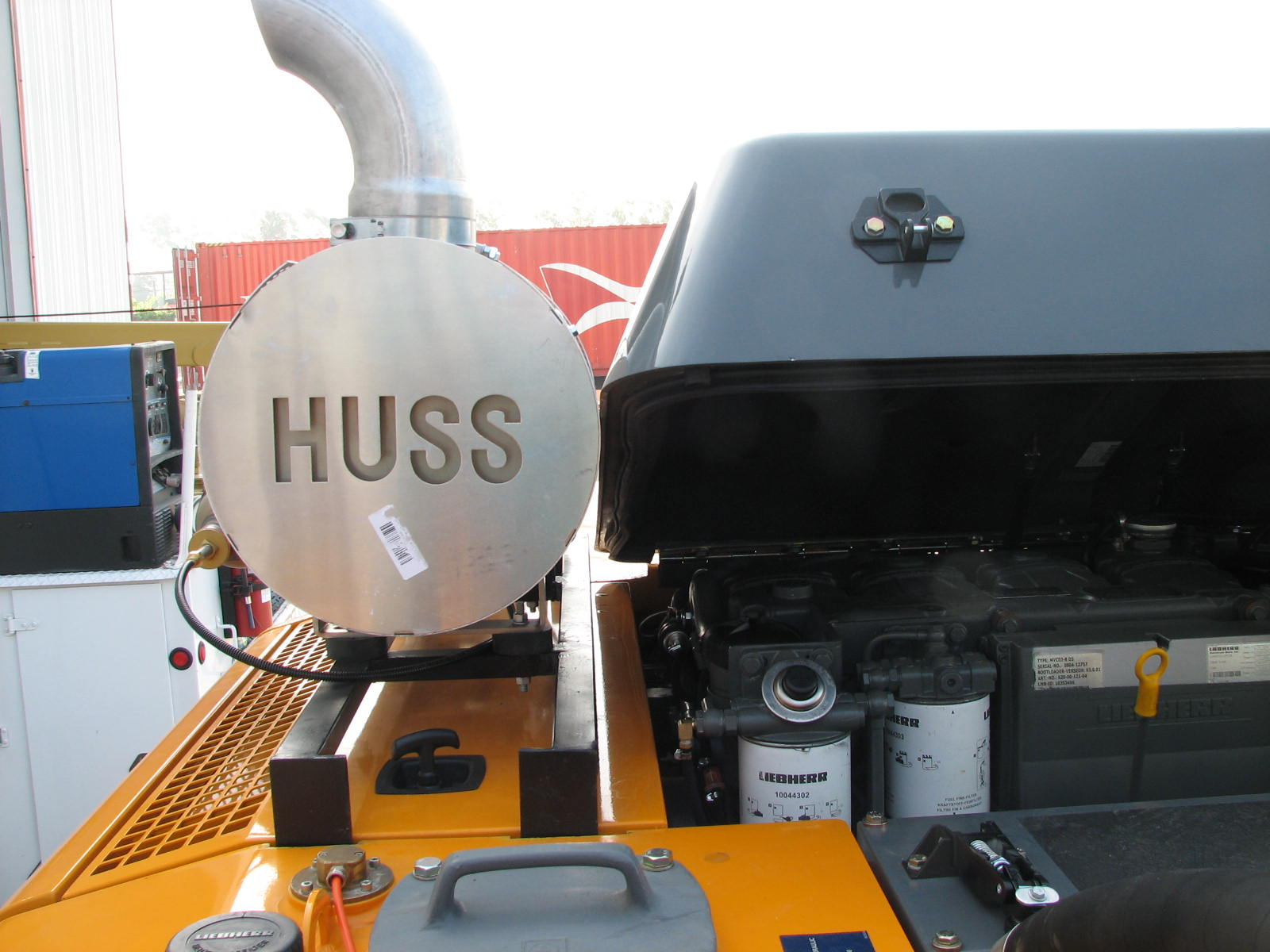 Installation of a dpf on a construction machine